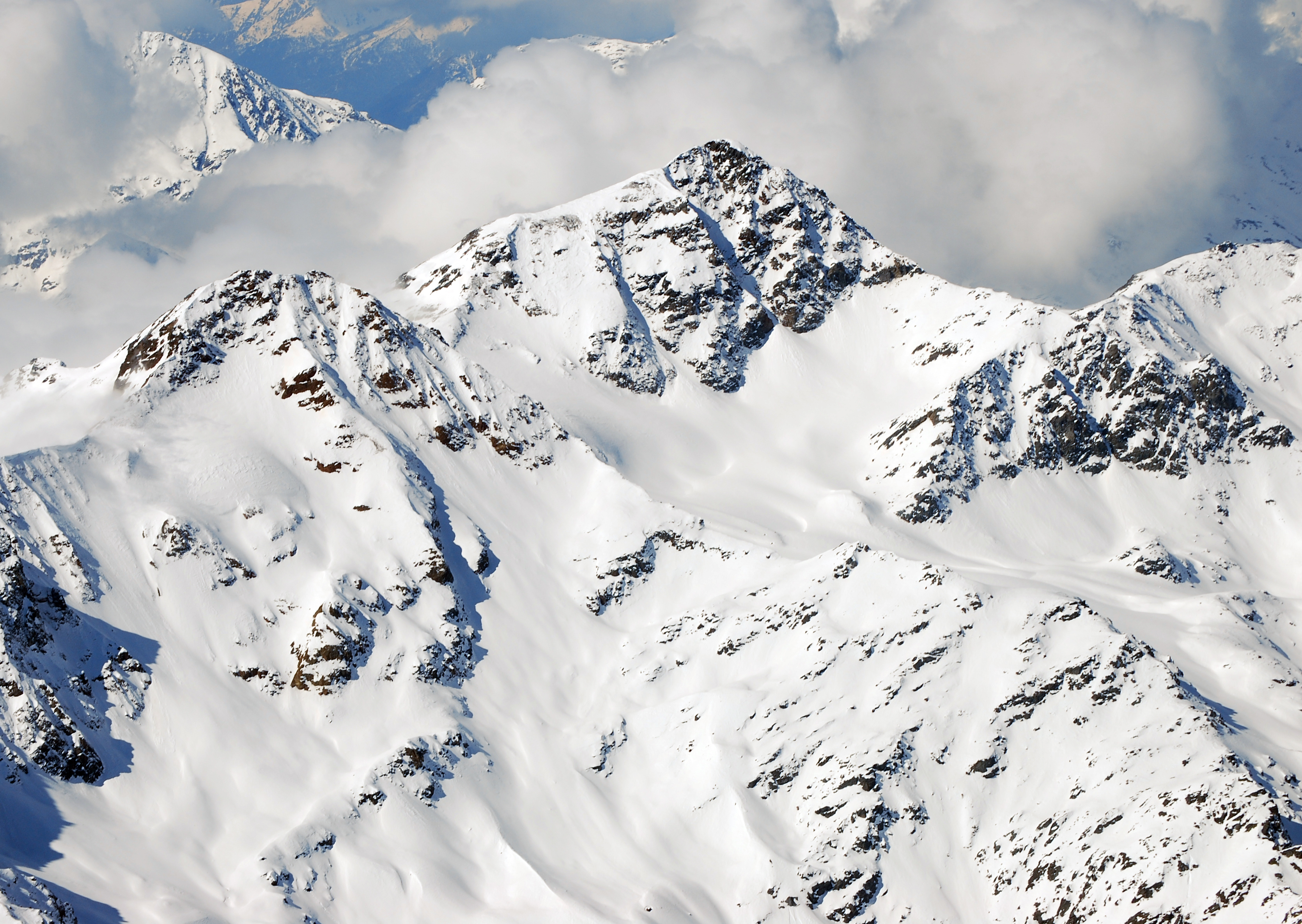 Monte Confinale, Cima della Manzina, Cima delle Saline from Gran Zebru